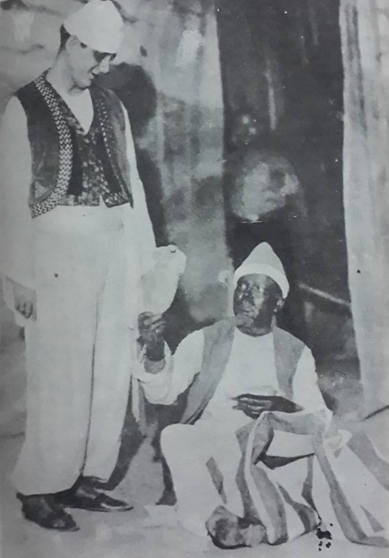 A scene from a play by Egyptian actor Ali Al-Kassar, in which he plays the role of the Nubian Servant Othman. It played in 1917.